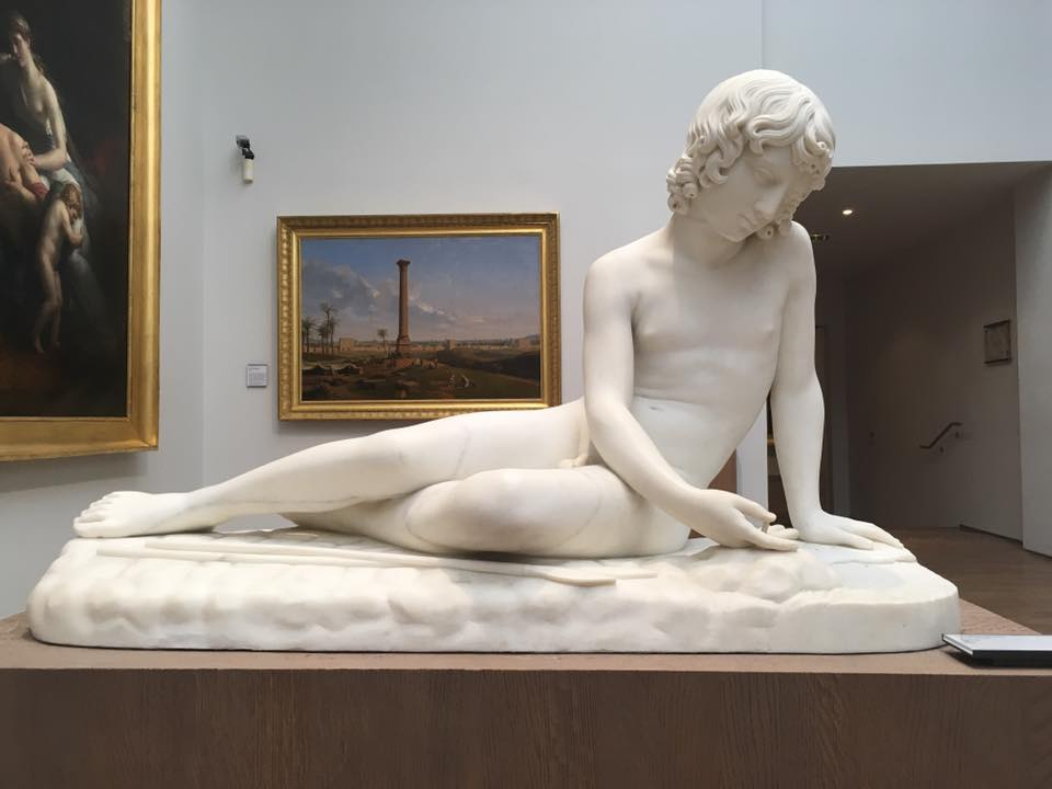 Narcissus by Jean-Pierre Cortot, 1818. Fine Arts museum of Angers, France.